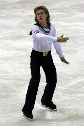 Artem BORODULIN at the 2008 World Junior Championships. SP.